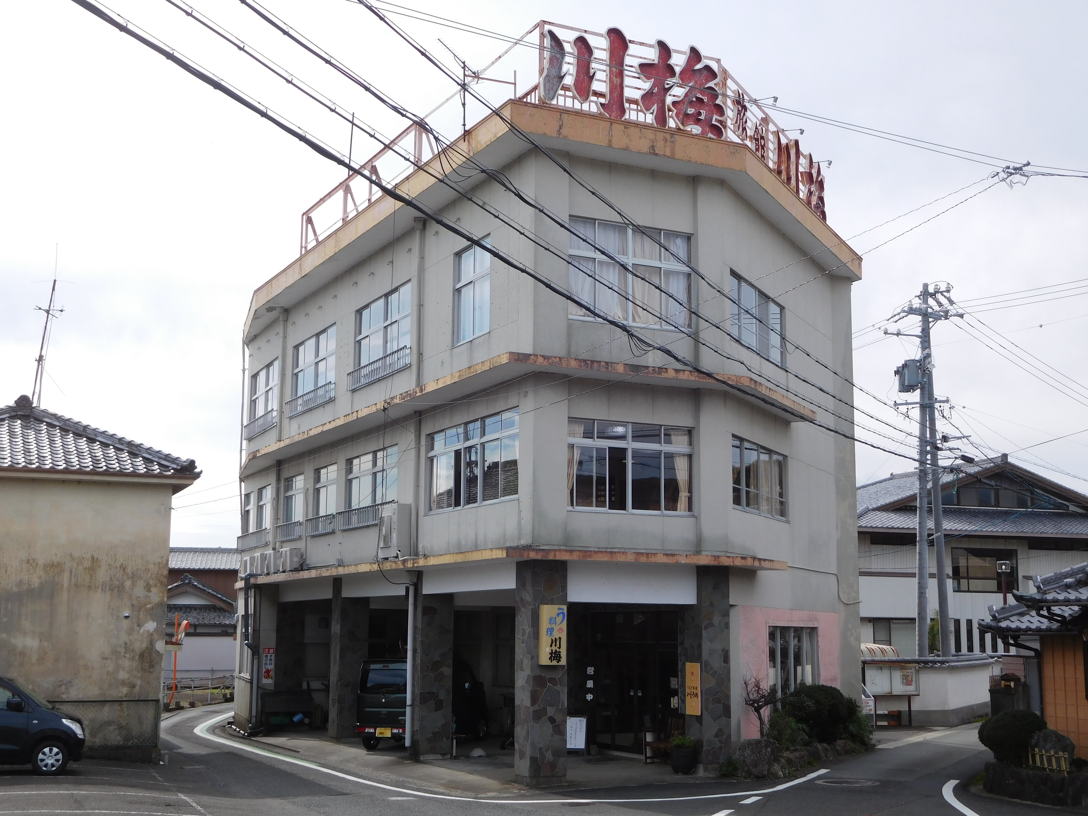 This is the eel restaurant "Kawaume", which is in Isobecho-Hasama, Shima, Mie, Japan.